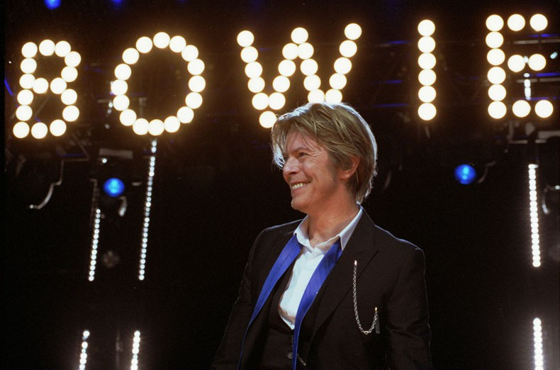 David Bowie performs at Tweeter Center outside Chicago in Tinley Park,IL, USA on August 8, 2002. Photo by Adam Bielawski